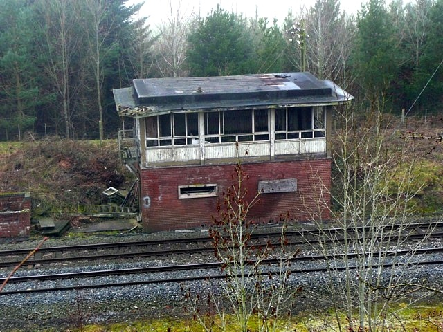 Ghostly signal box, Little Salkeld